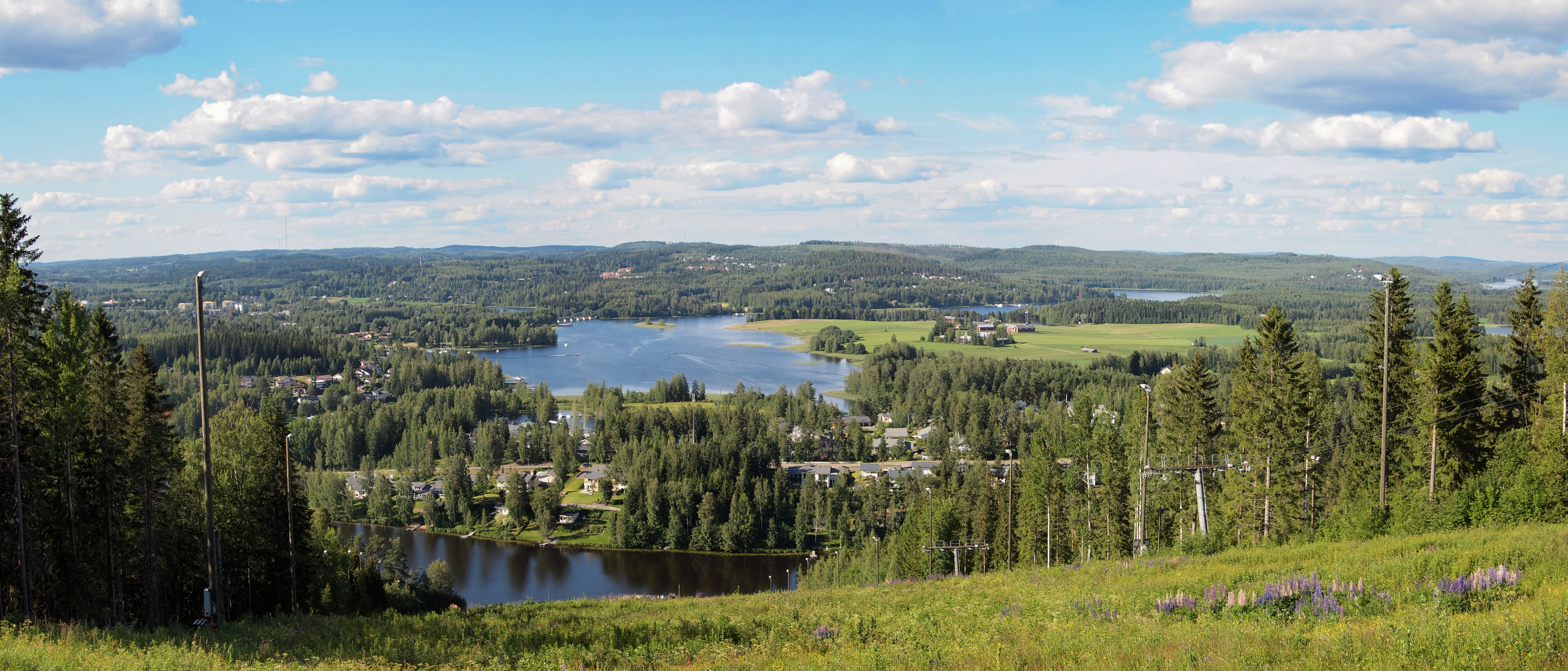 View from Riihivuori. This photograph was taken with an Olympus E-PL1